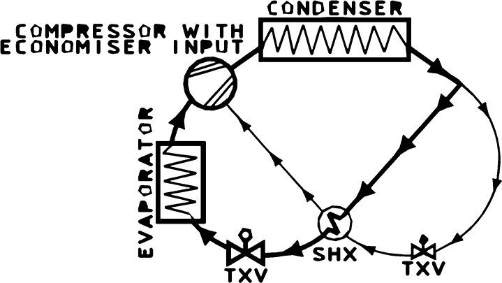 Refrigeration Cycle With Subcool Economising Screw